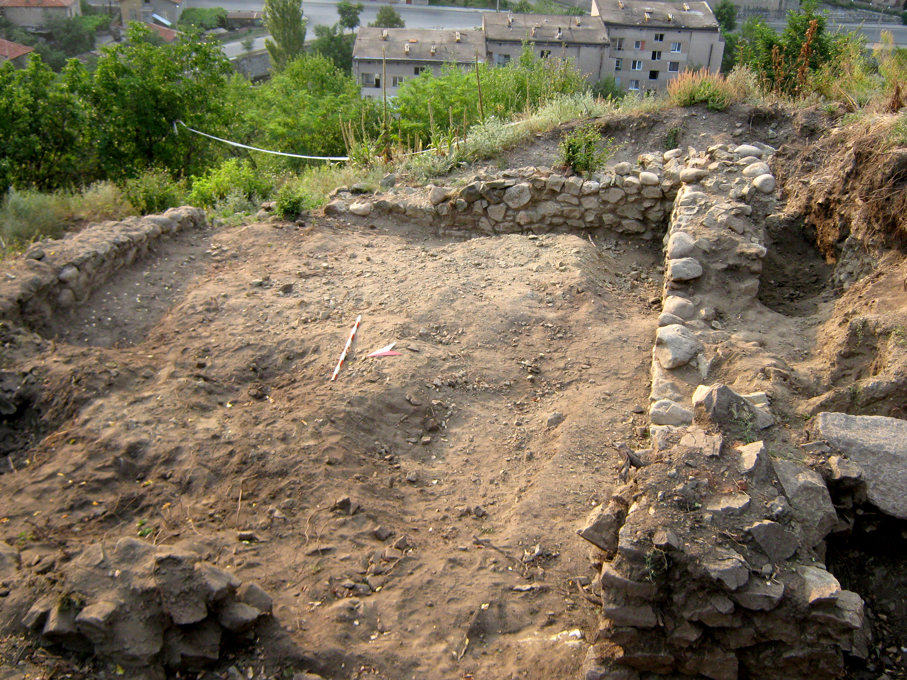 This photo is provided by the Historical Museum in Dupnitsa and is included in the album "Dupnitsa through the centuries" („Дупница през вековете“). Dupnitsa Municipality, Historical Museum - Dupnitsa. ISBN 978-954-8187-89-3.